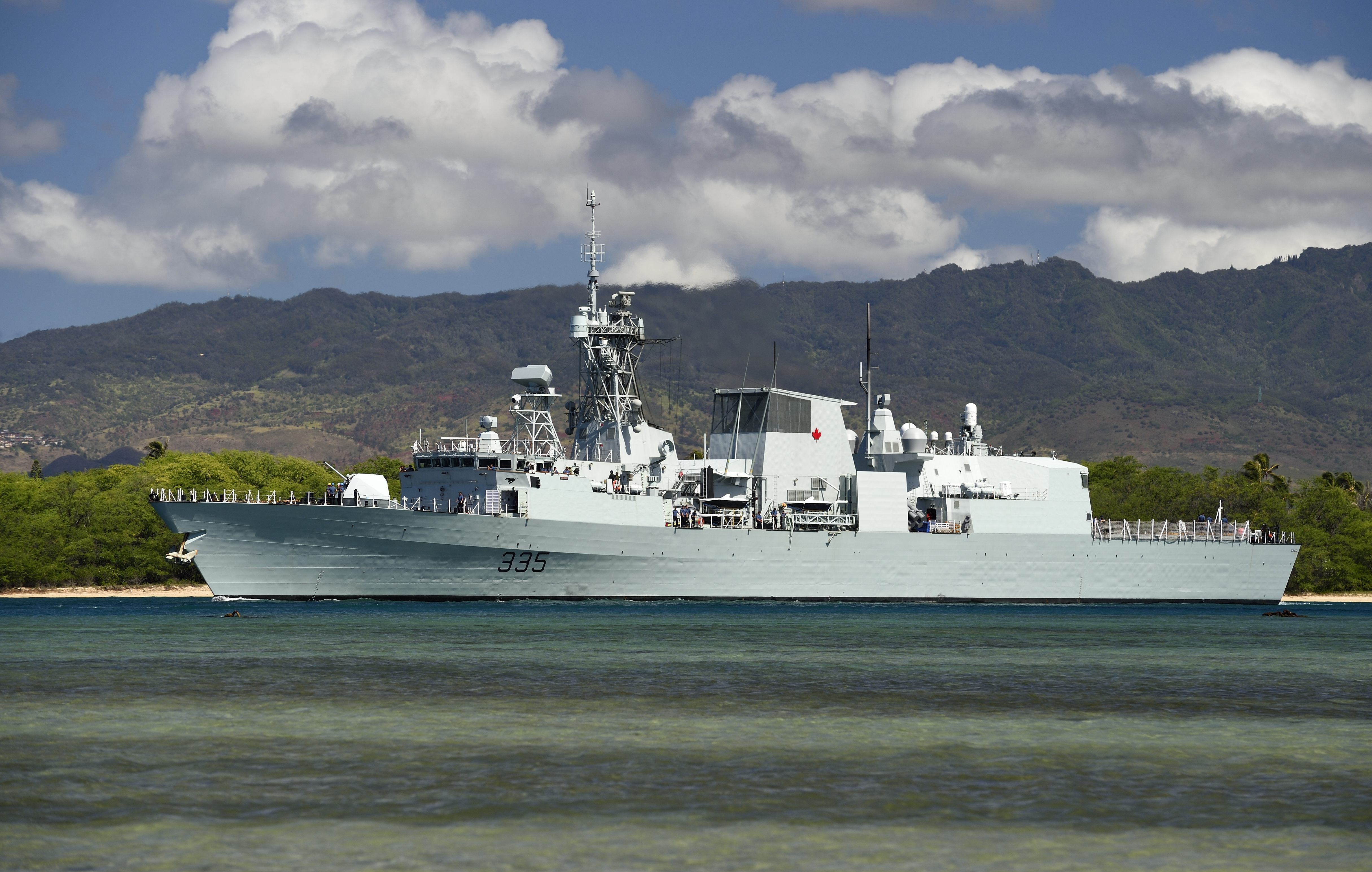 The Royal Canadian Navy Halifax-class frigate HMCS Calgary (FFH-335) departs Pearl Harbor, Hawaii (USA), to begin the at-sea phase of Rim of the Pacific (RIMPAC) 2014.